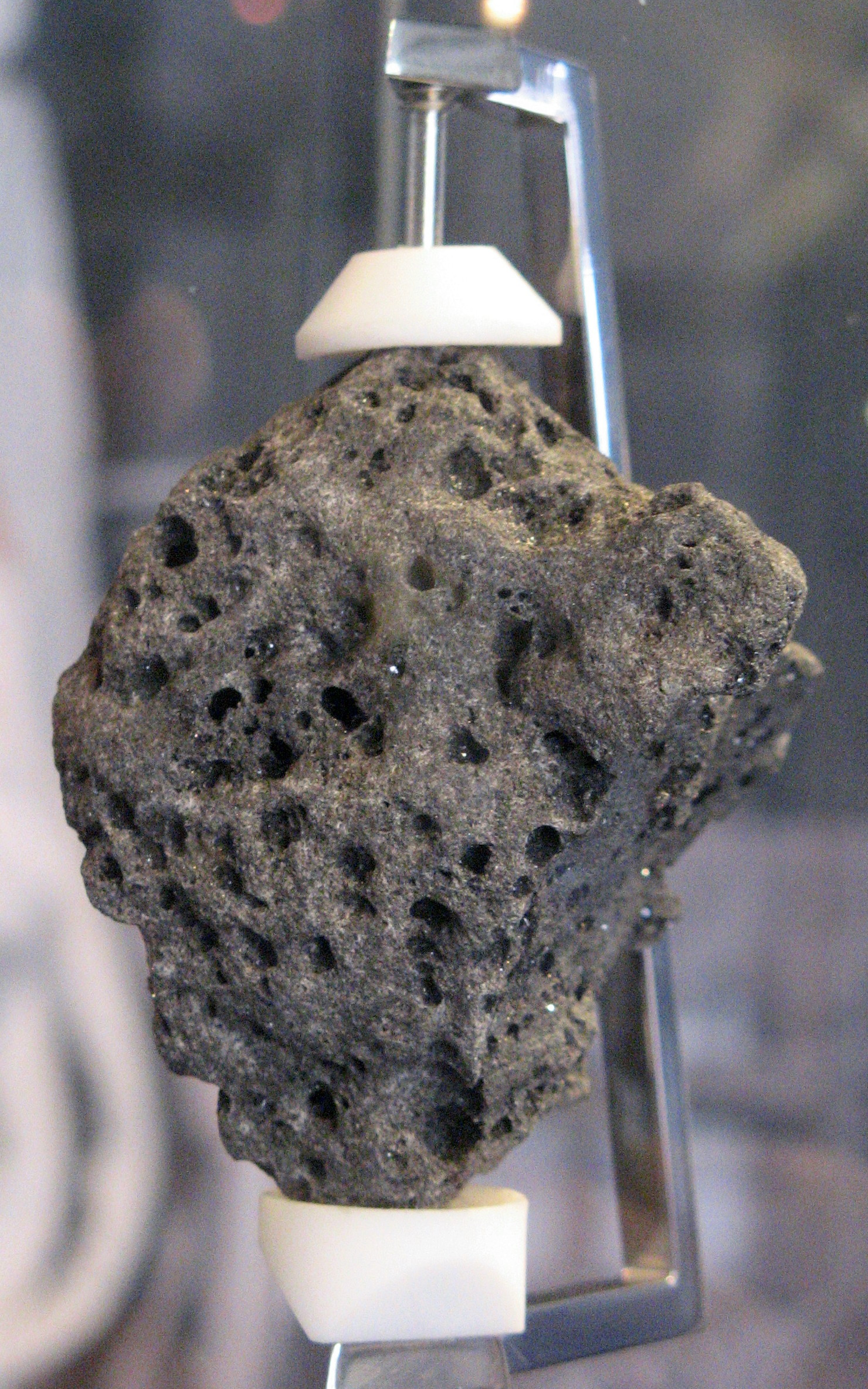 Apollo 11 moon rock, display sample 10072,80 Vesicular, intersertal basalt, 142.25 grams Displayed at the Canberra Deep Space Communication Complex, Visitor Centre. From NASA Lunar Sample Compendium report: It is a fine-grained, high-potassium, ilmenite basalt and is 3.6 billion years old.